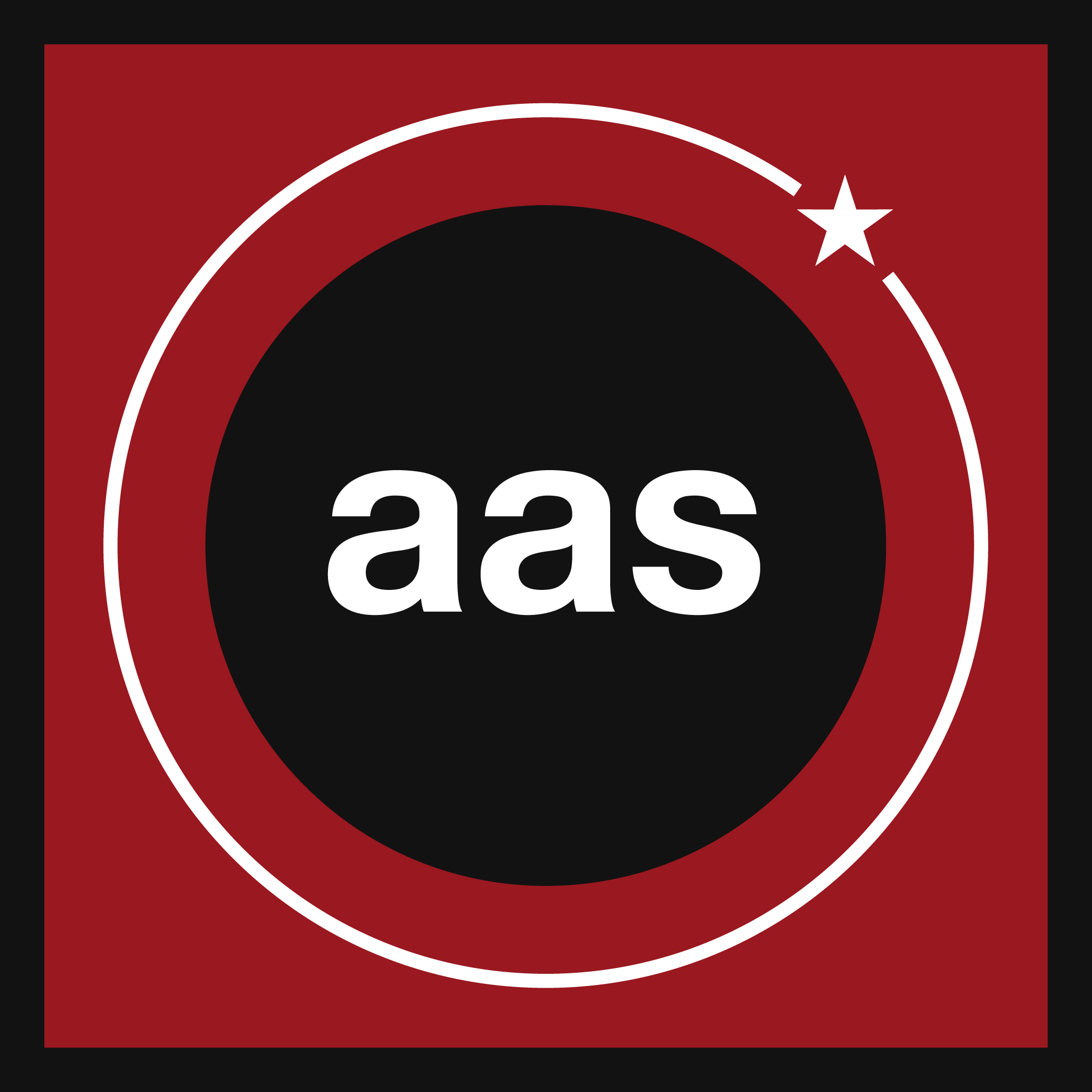 Version three of the a.a.s logotype designed to mark the third phase of the group's development 2007-2011